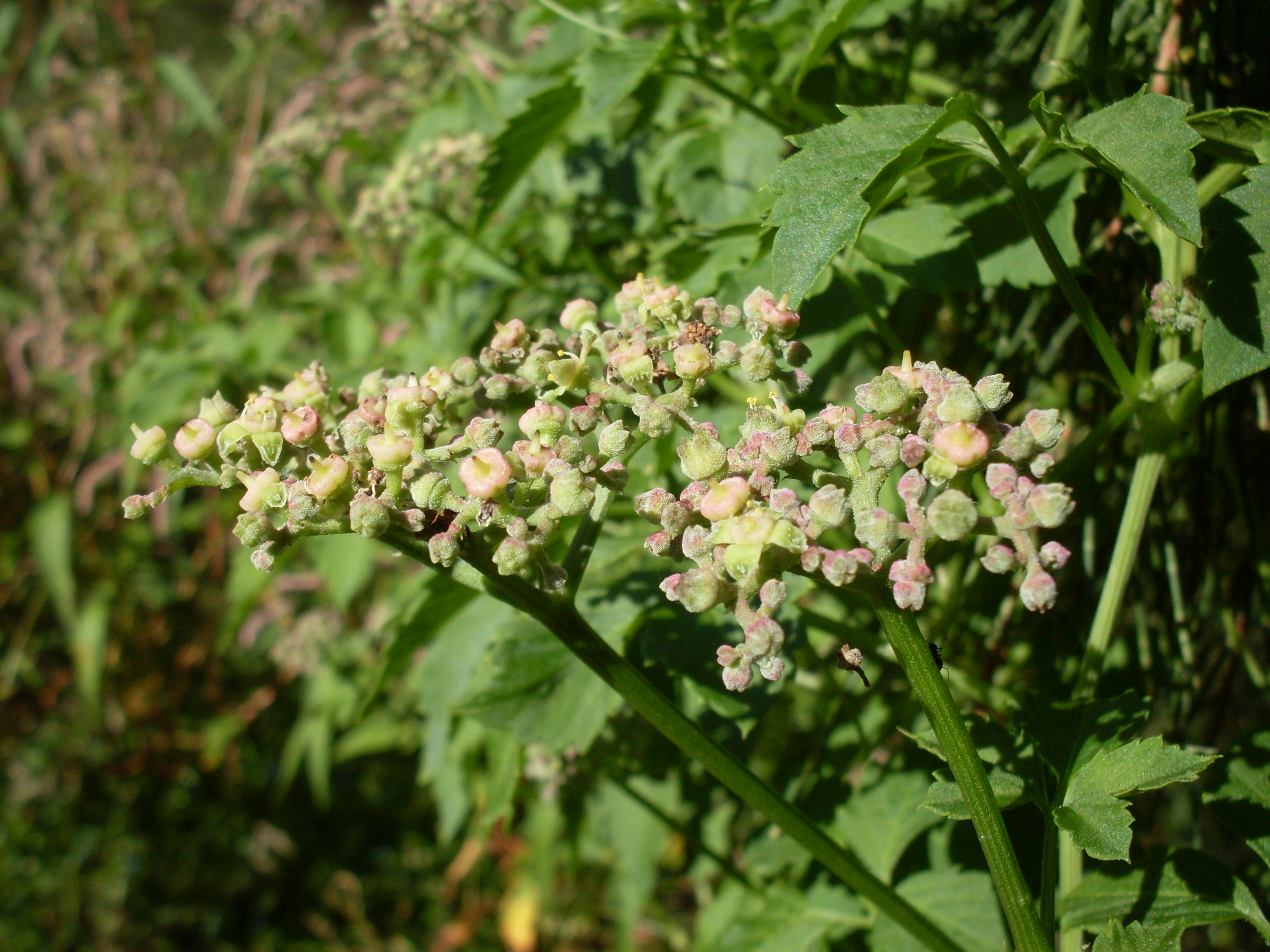 Flowering Native Grape (Cayratia clematidea). Paruna Reserve, Como NSW Australia, March 2010.